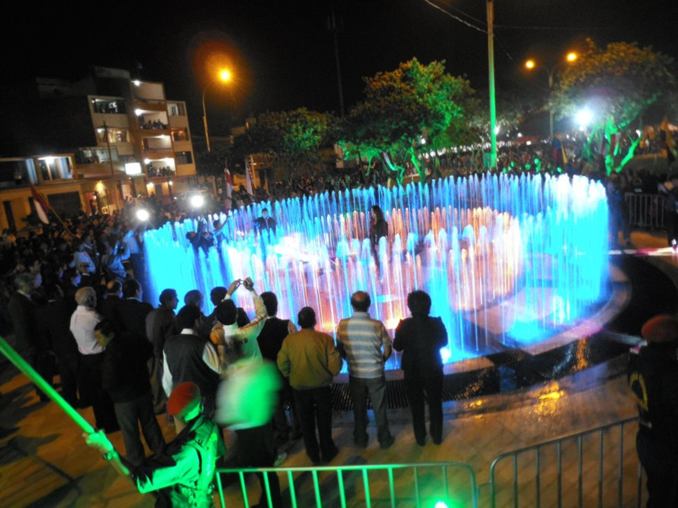 Pileta Lúdica Paseo de Aguas